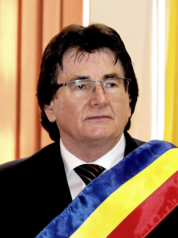 Mayor Nicolae Robu at Timișoara Day (August 3rd) 2017